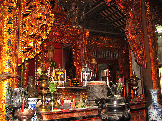 The altar for Tran Hung Dao in Kiep Bac Shrine, Hai Duong Province, Vietnam